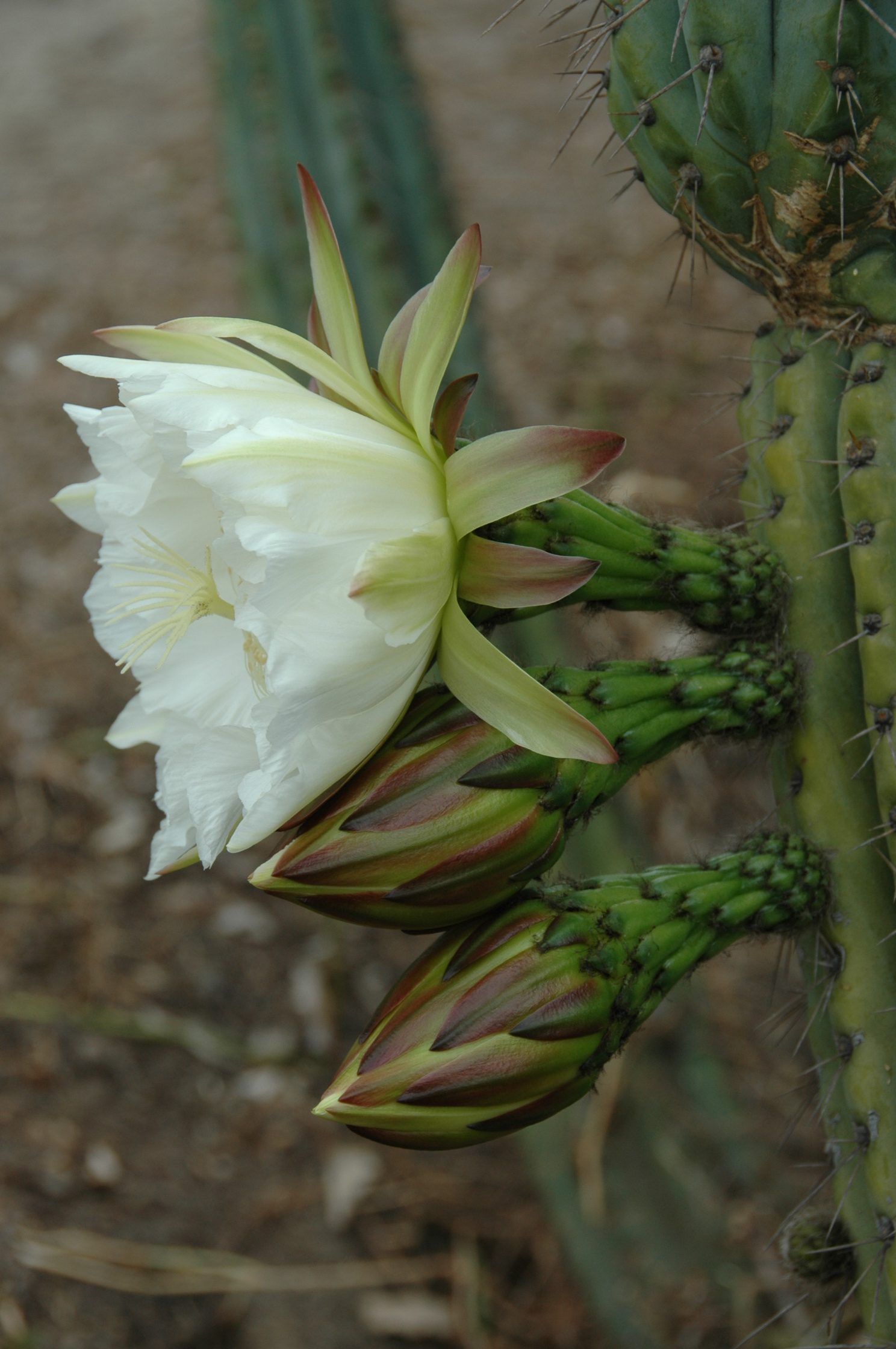 cactus flower